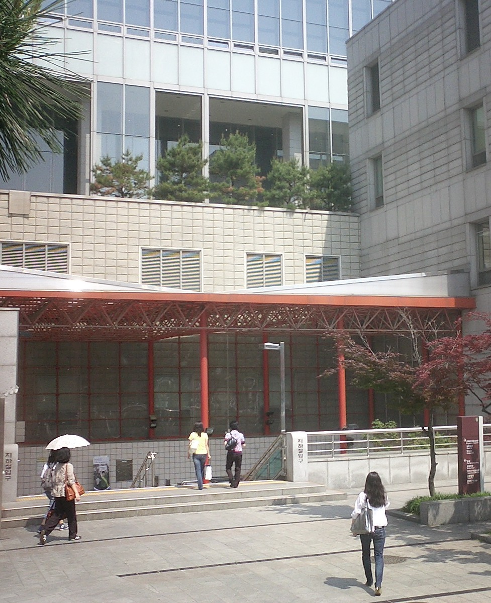 Seoul Subway Line 6 Korea University Station Entrance No.1